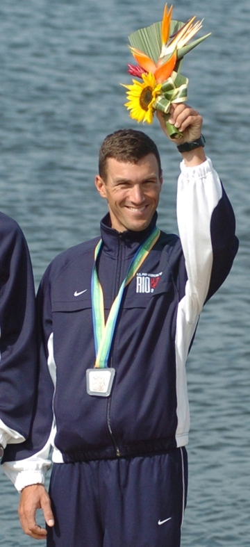 Capt. Matt Smith of the U.S. Army World Class Athlete Program celebrated winning silver medals in the lightweight men's four event July 19 at the XV Pan American Games in Rio de Janeiro, Brazil.